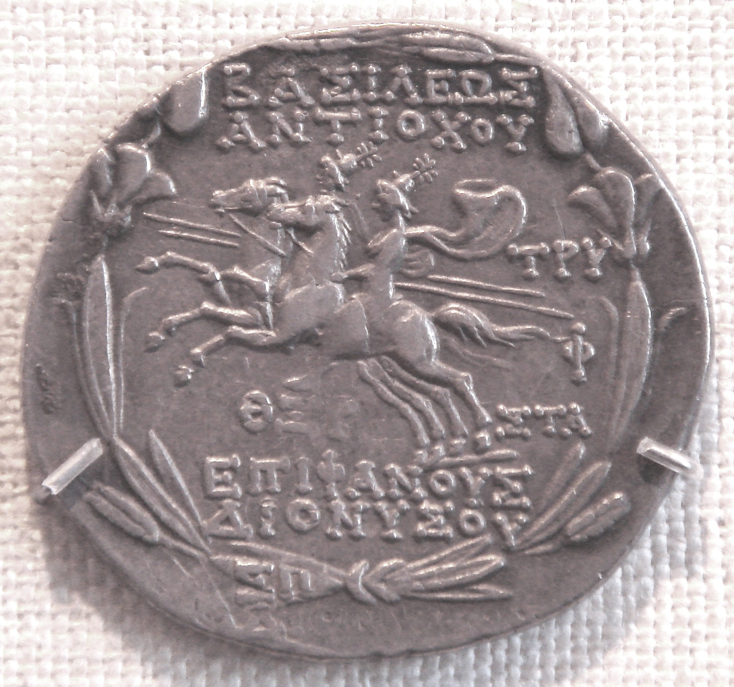 Antiochos_VI_with_Dioscuri